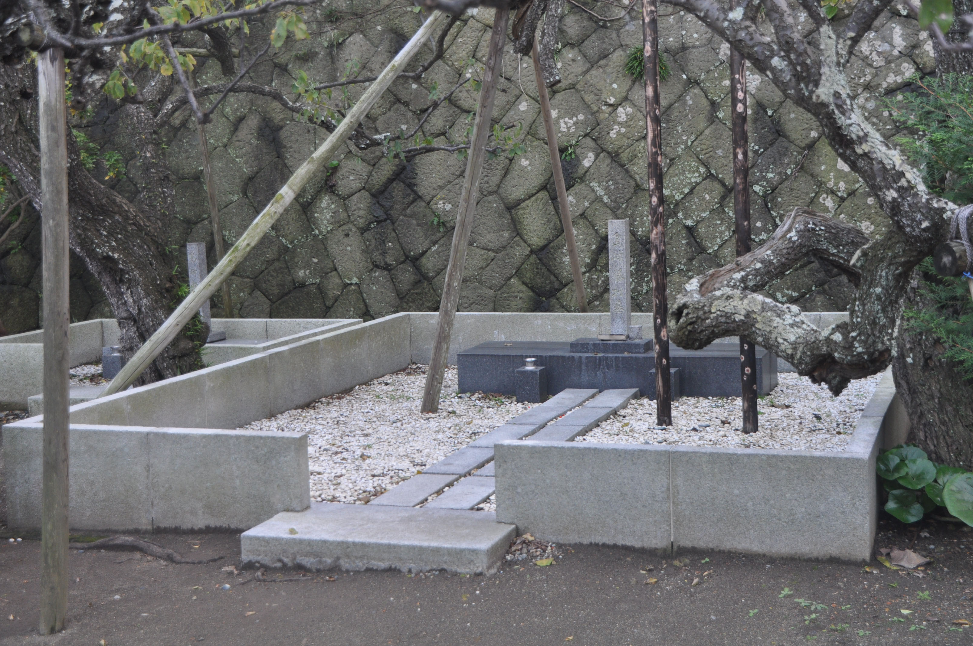 The tombs of Toson Shimazaki (right) and Shizuko (left), his wife, at Jifuku Temple, Oiso, Kanagawa, Japan